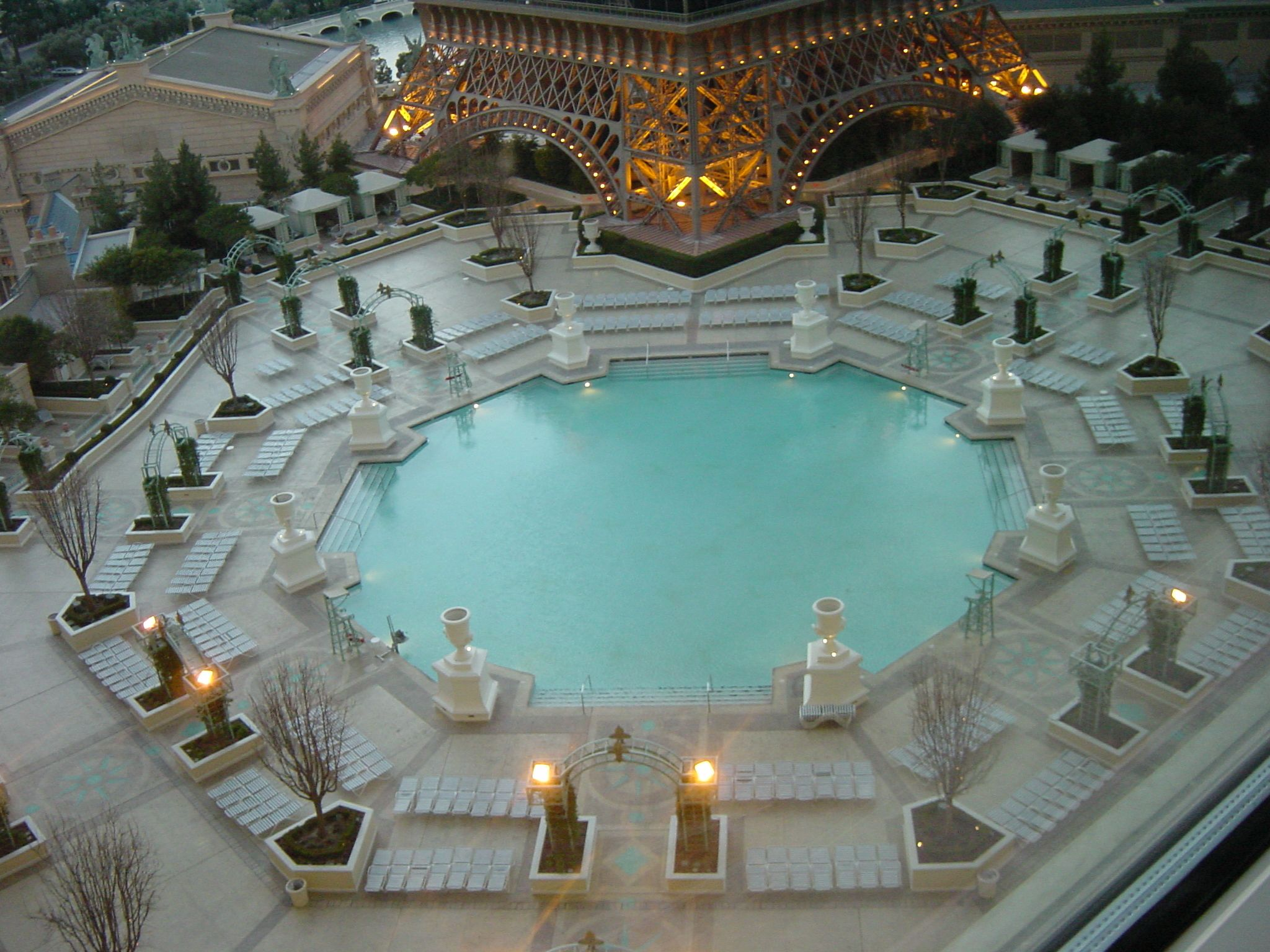 Swimming pool of the Hotel Paris Las Vegas.